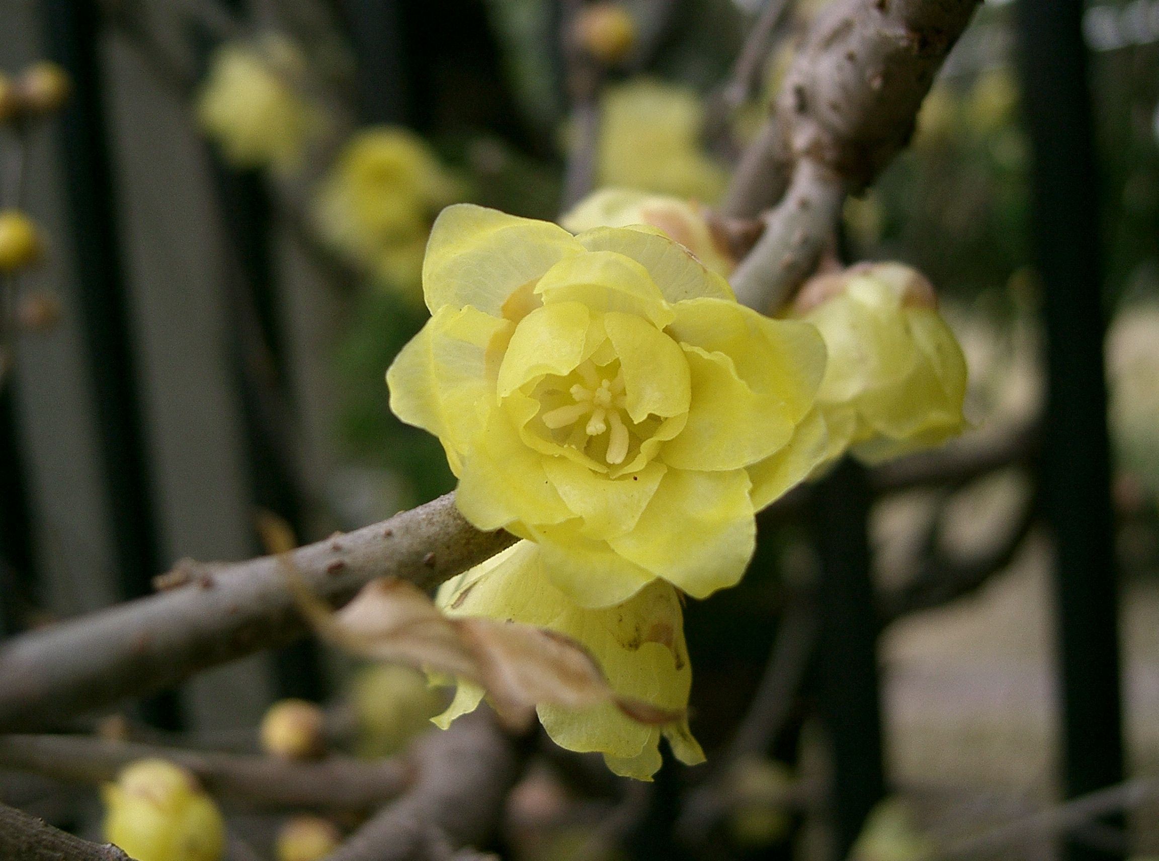 Chimonanthus praecox f. concolor. Place:Osaka-fu Japan